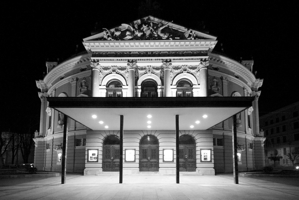 Opera house by night